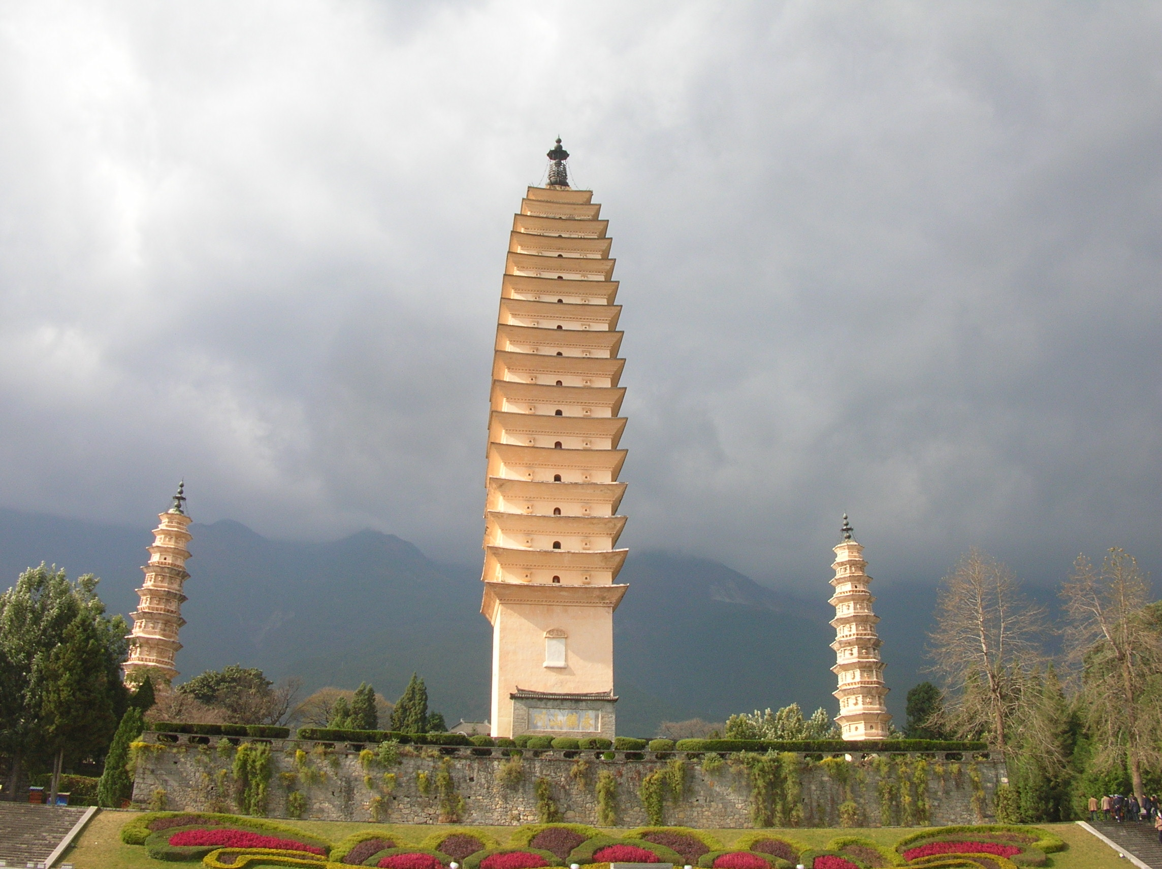 Three Pagodas, from bottom view.